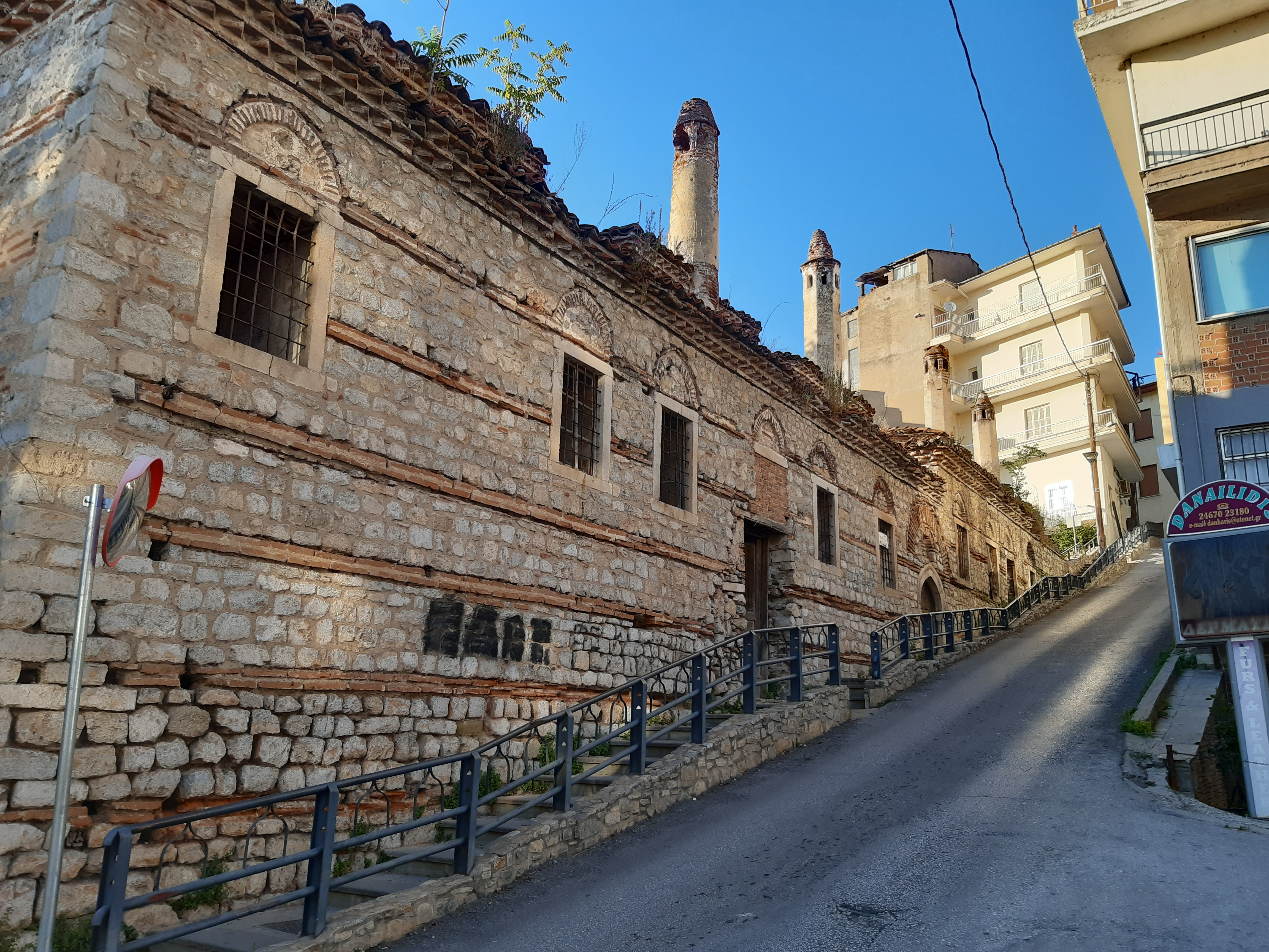 Ahmed Pasha Madrasah